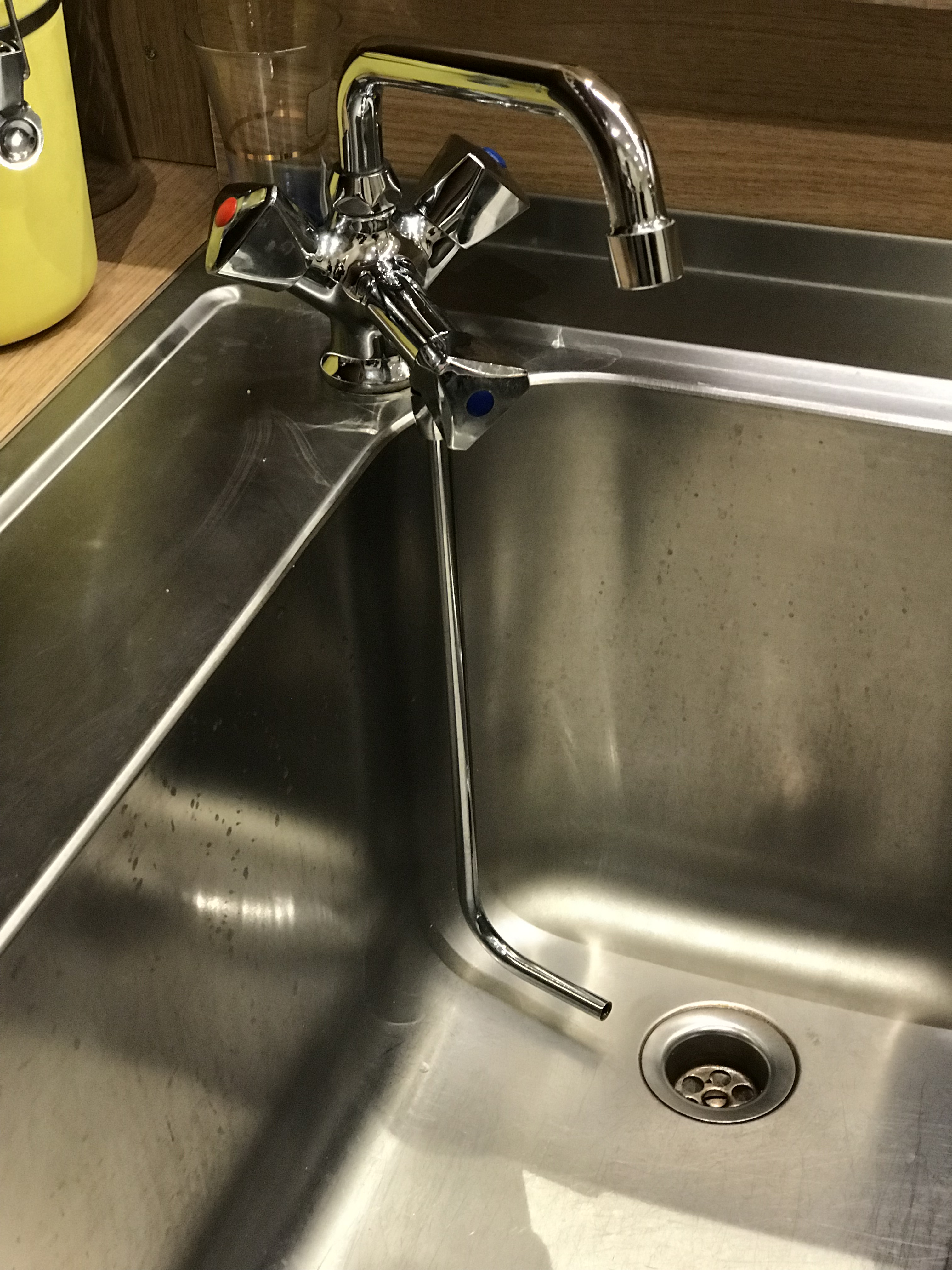 Water tap for glasswasher basin